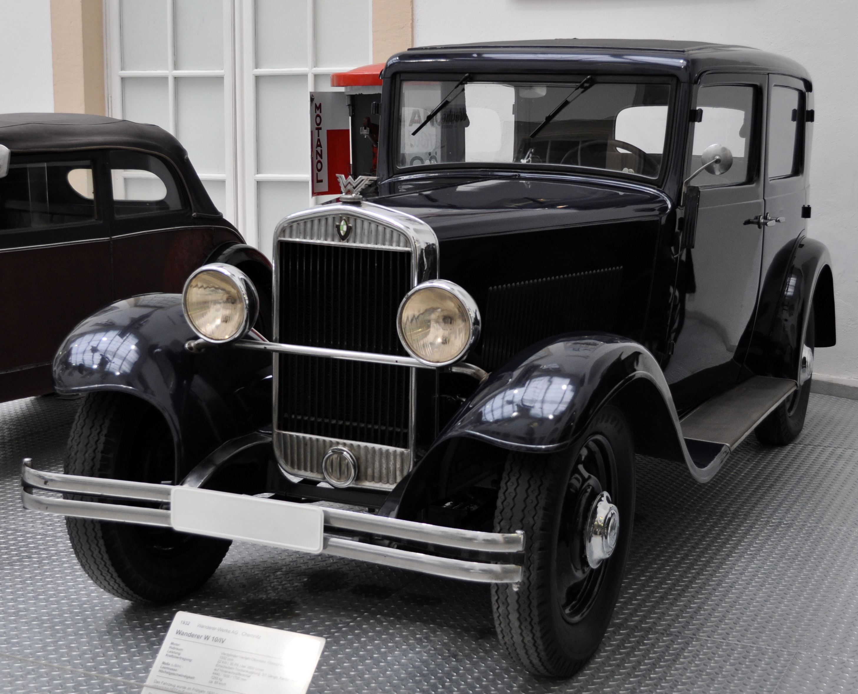 Wanderer W10/IV in the Dresden Verkehrsmuseum